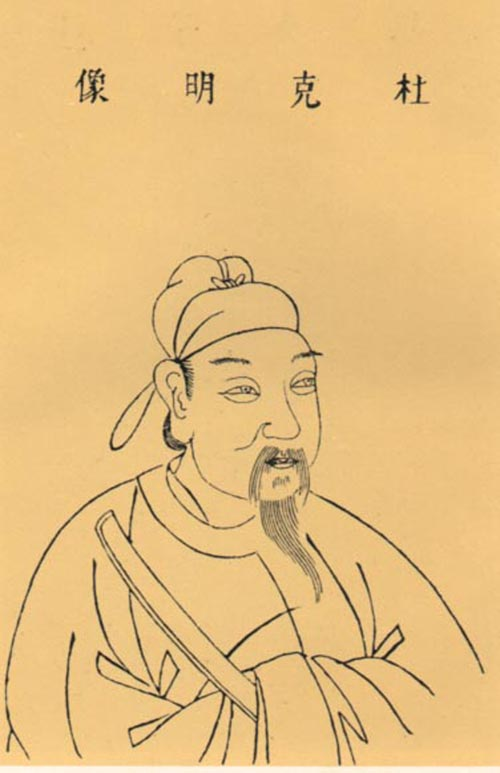 a sancai tuhui protrait of Du Ruhui a chancellor who serve under Emperor Taizong of Tang